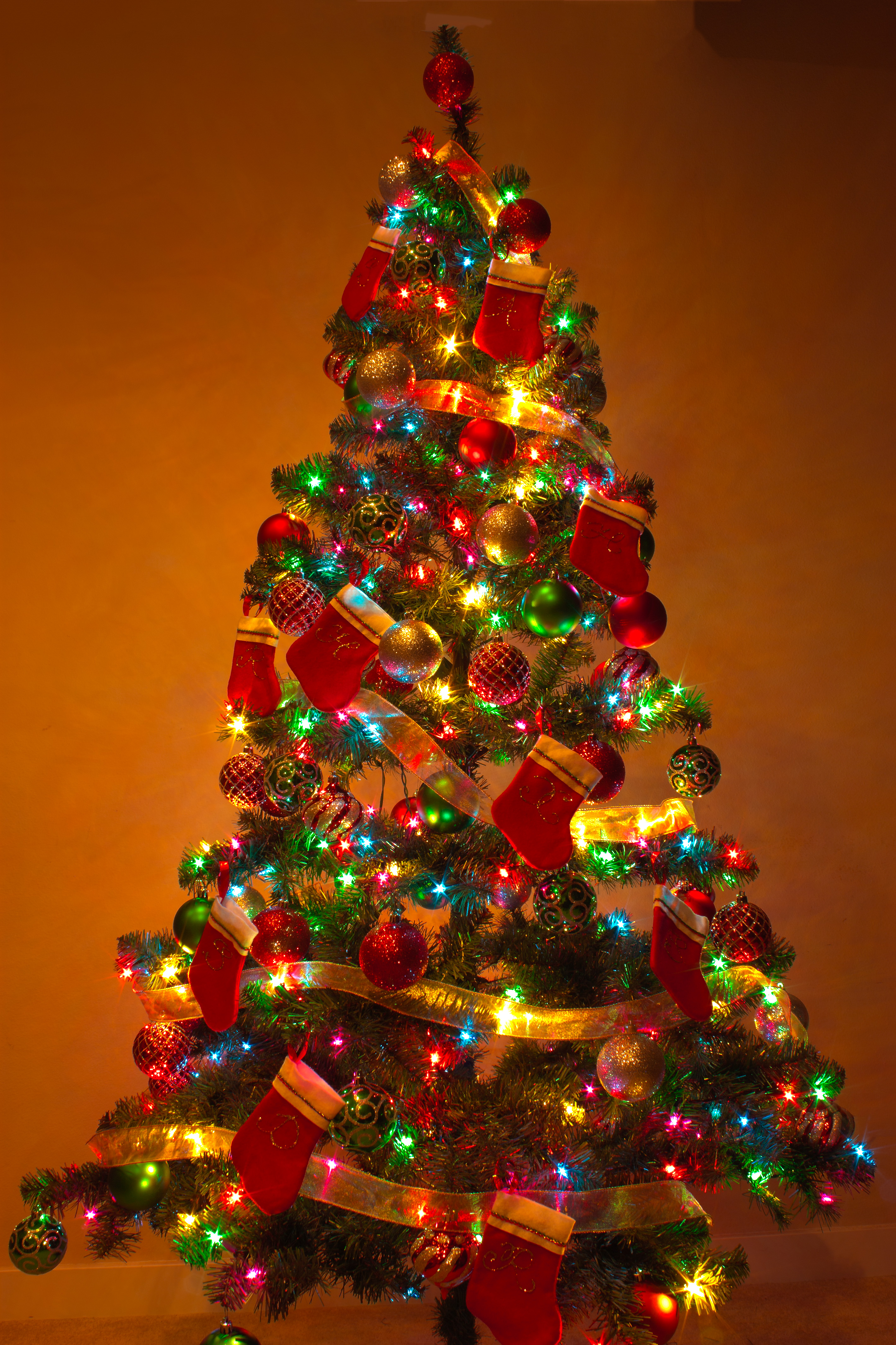 A Christmas Tree at Home